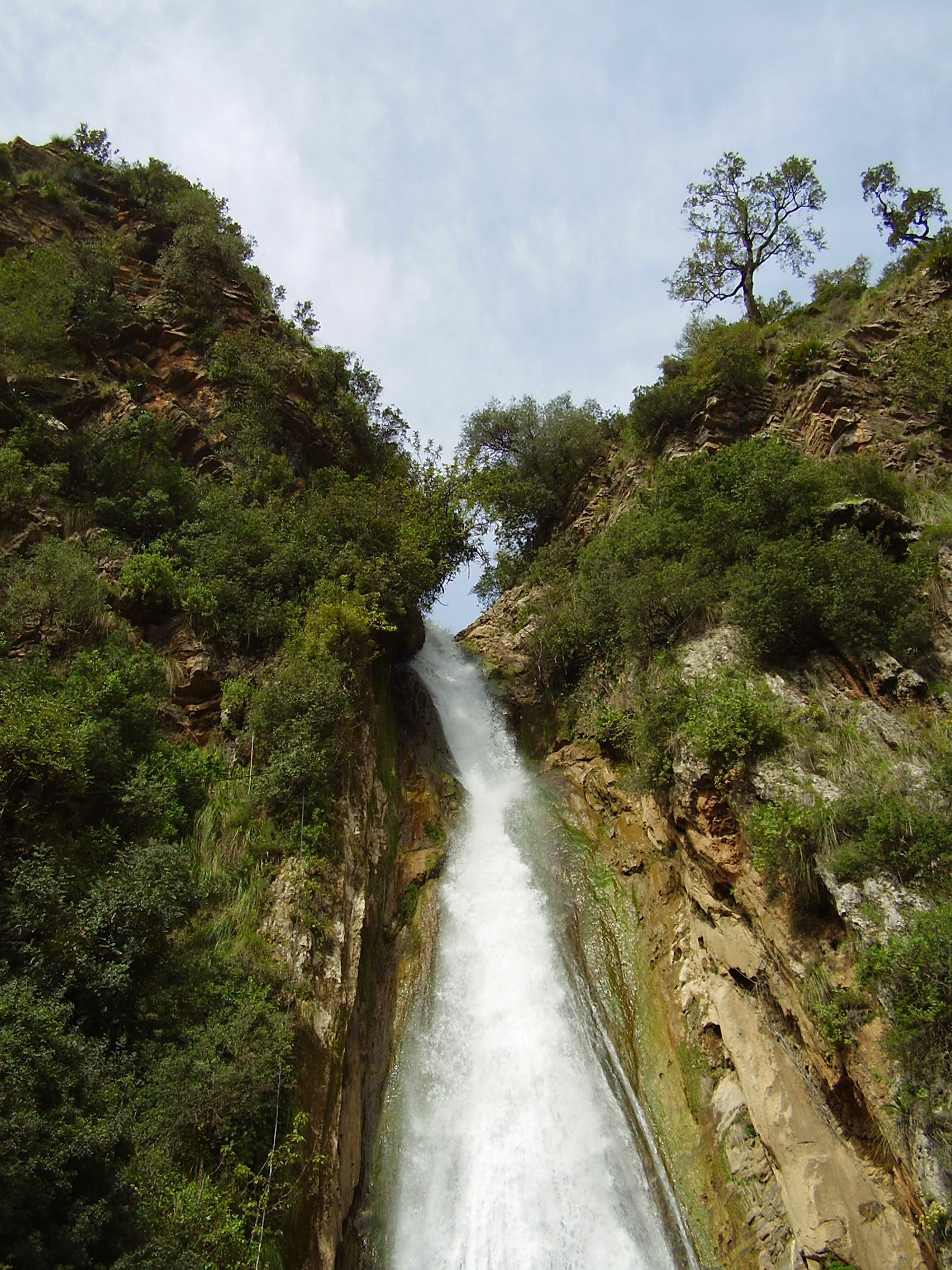 Kafrida falls in Kabylia region (Algeria)